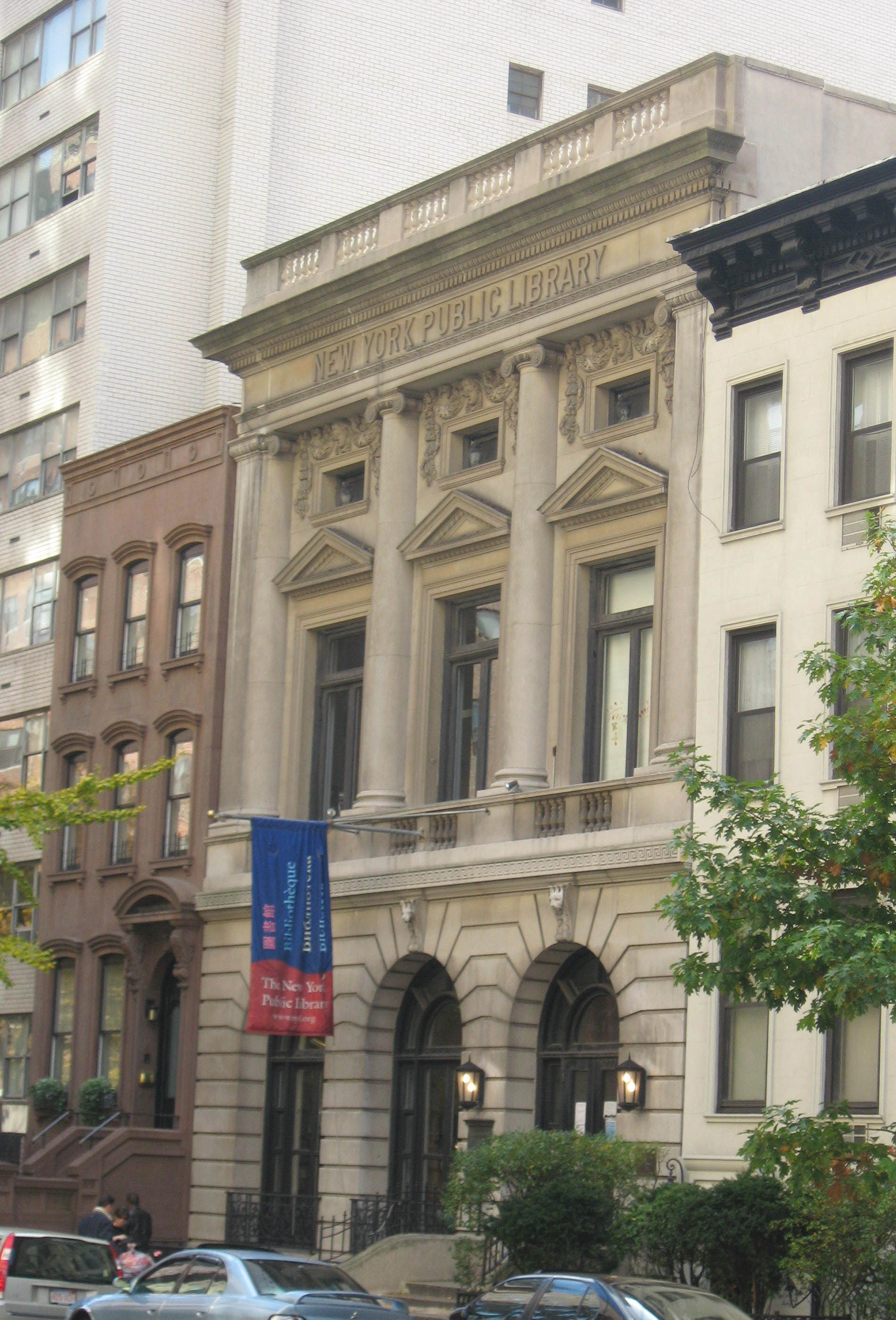 Looking south across east en:79th Street (Manhattan) at New York Public Library branch on a sunny afternoon. ZIP 10075.